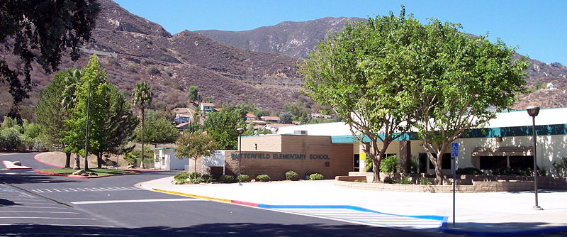 Front of Butterfield Elementary School (Lake Elsinore, California)